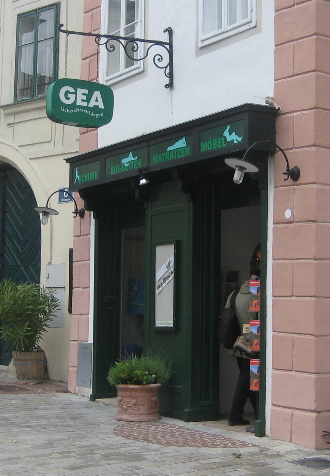 Store front of the GEA shop in Mödling, Austria.